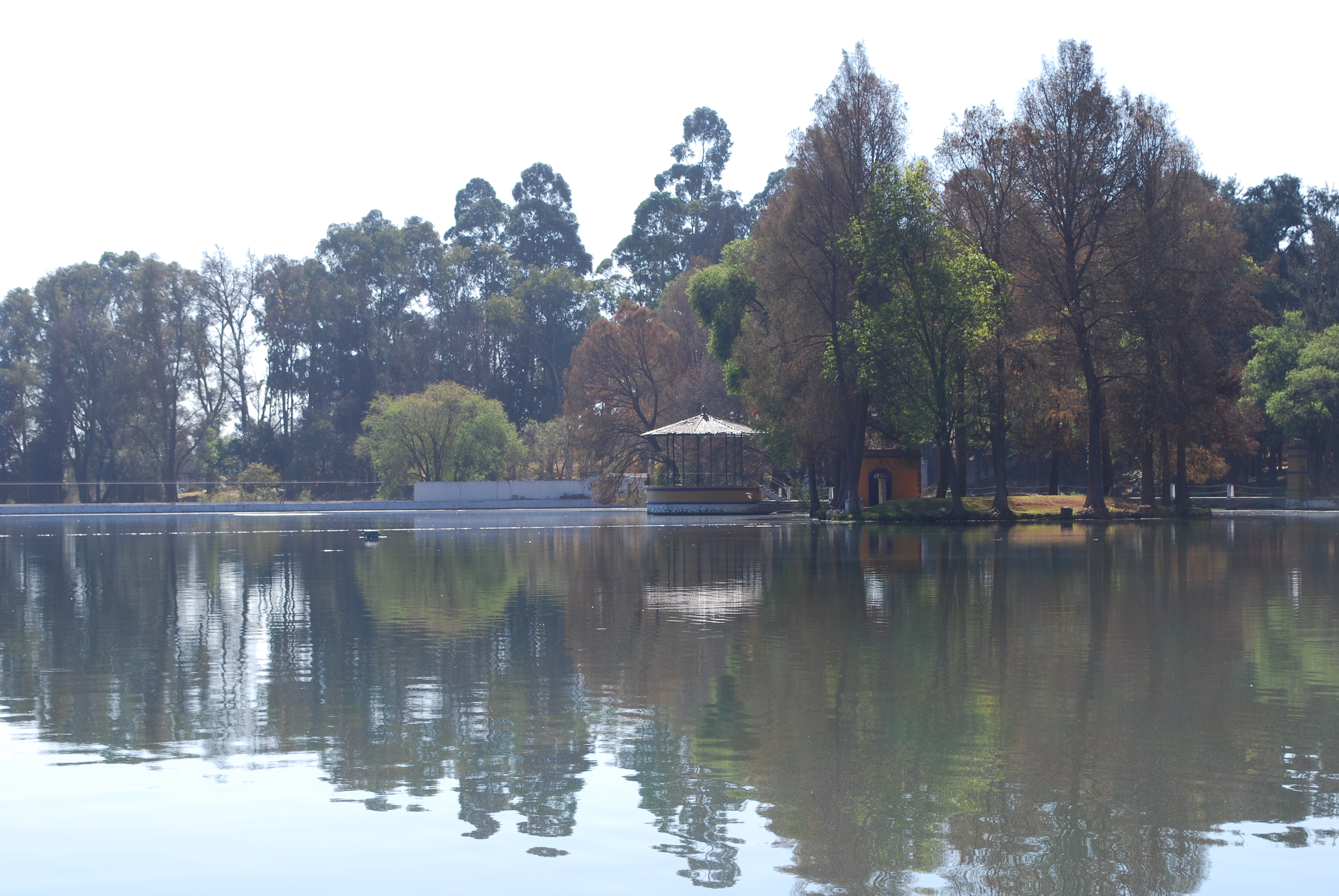 Kiosk and Isla de los Duendes (Island of Gnomes) on the dam at the Chautla Hacienda, San Salvador el Verde, Puebla, Mexico